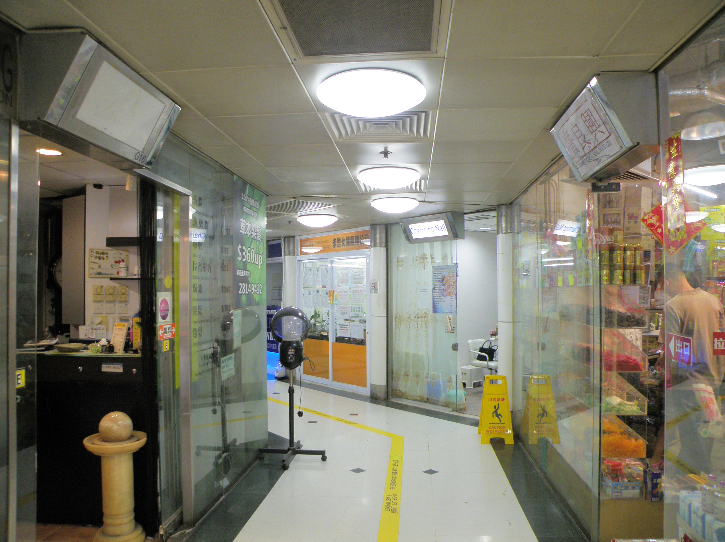 Marina Square East Centre in Ap Lei Chau, Hong Kong.